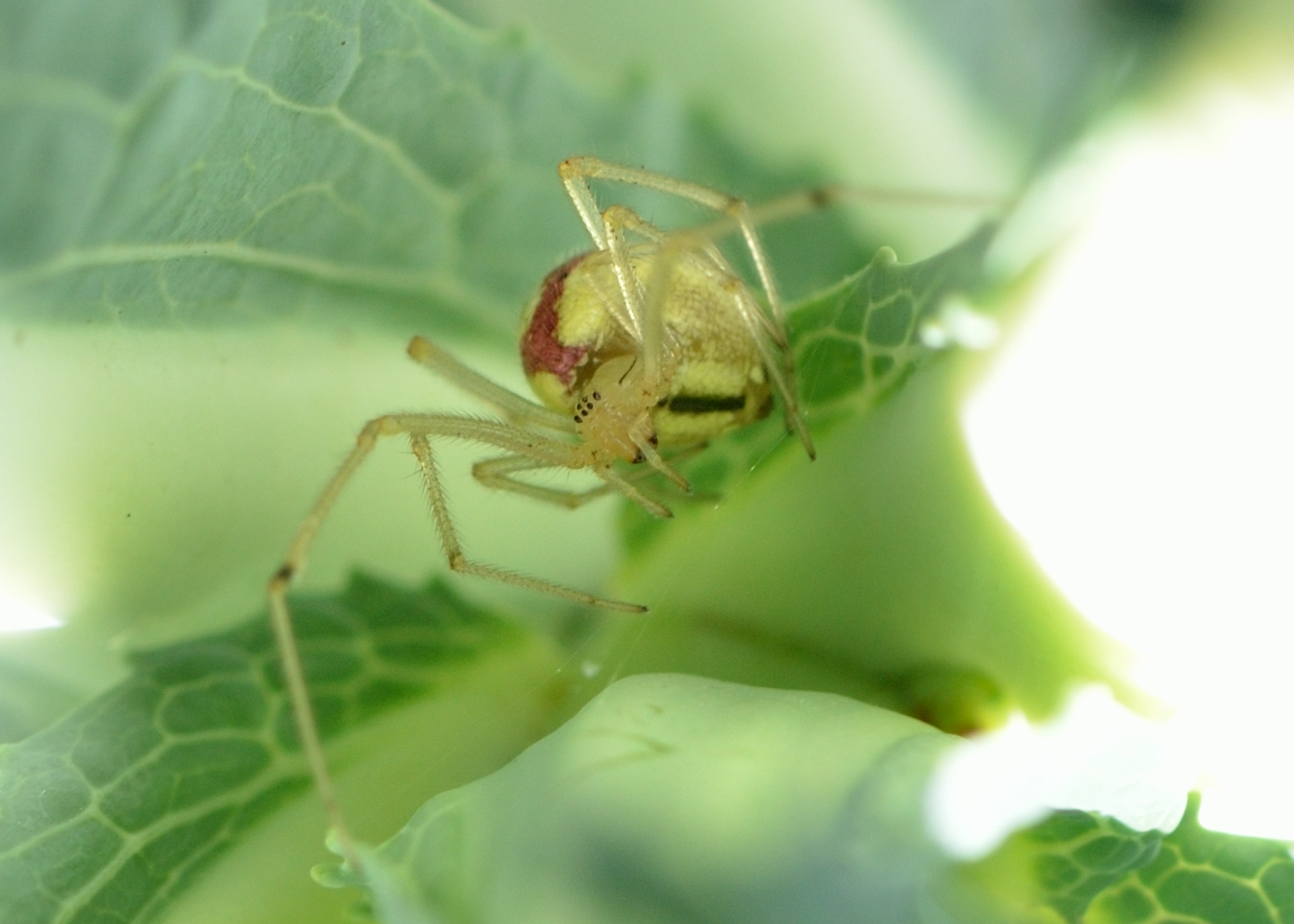 Female Enoplognatha ovate with a red V on a kale plant in a garden in Kirkland, Washington, USA.